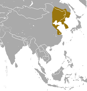 Ussuri White-toothed Shrew (Crocidura lasiura) range